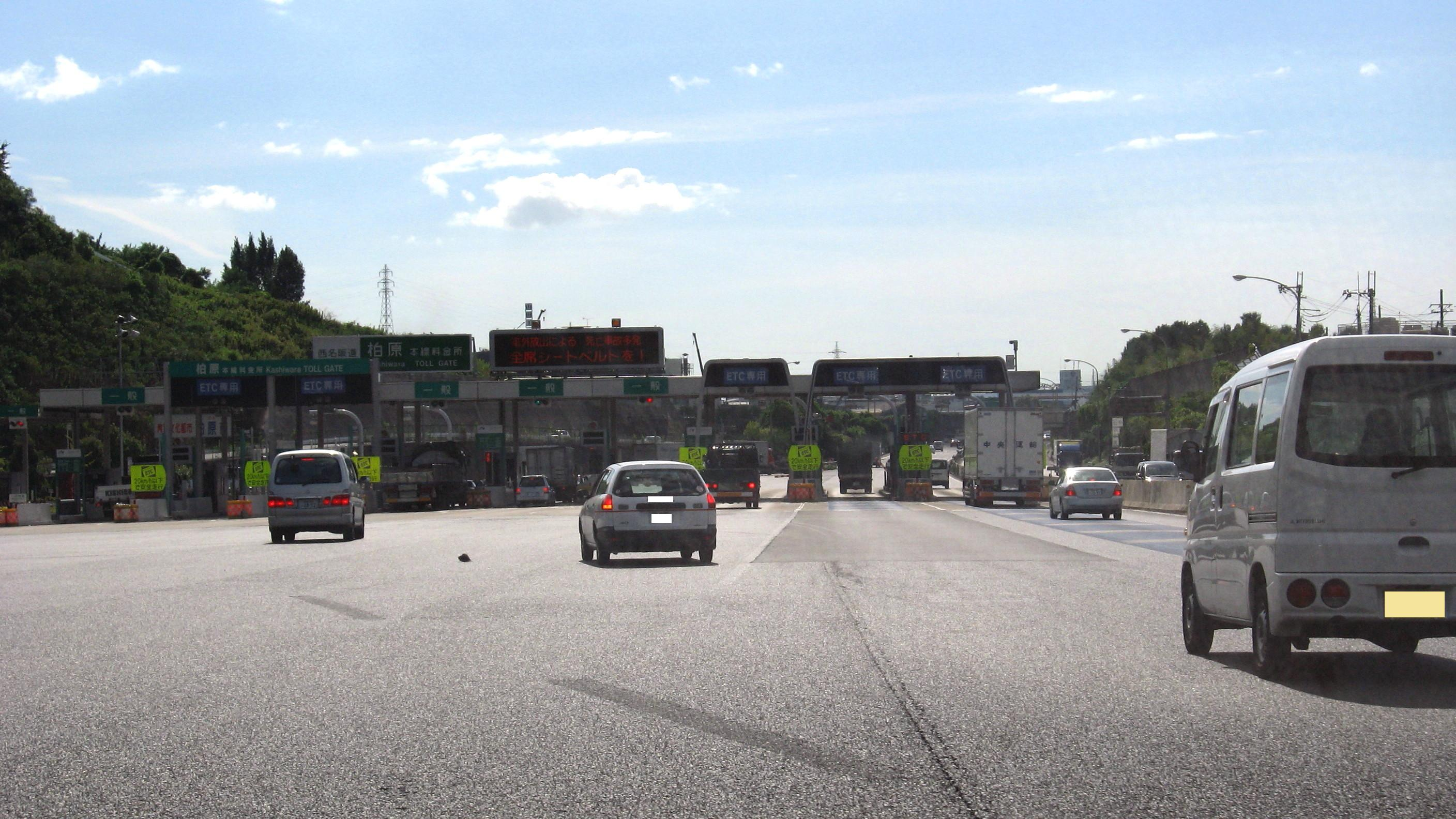 Kashiwaka Tollgate